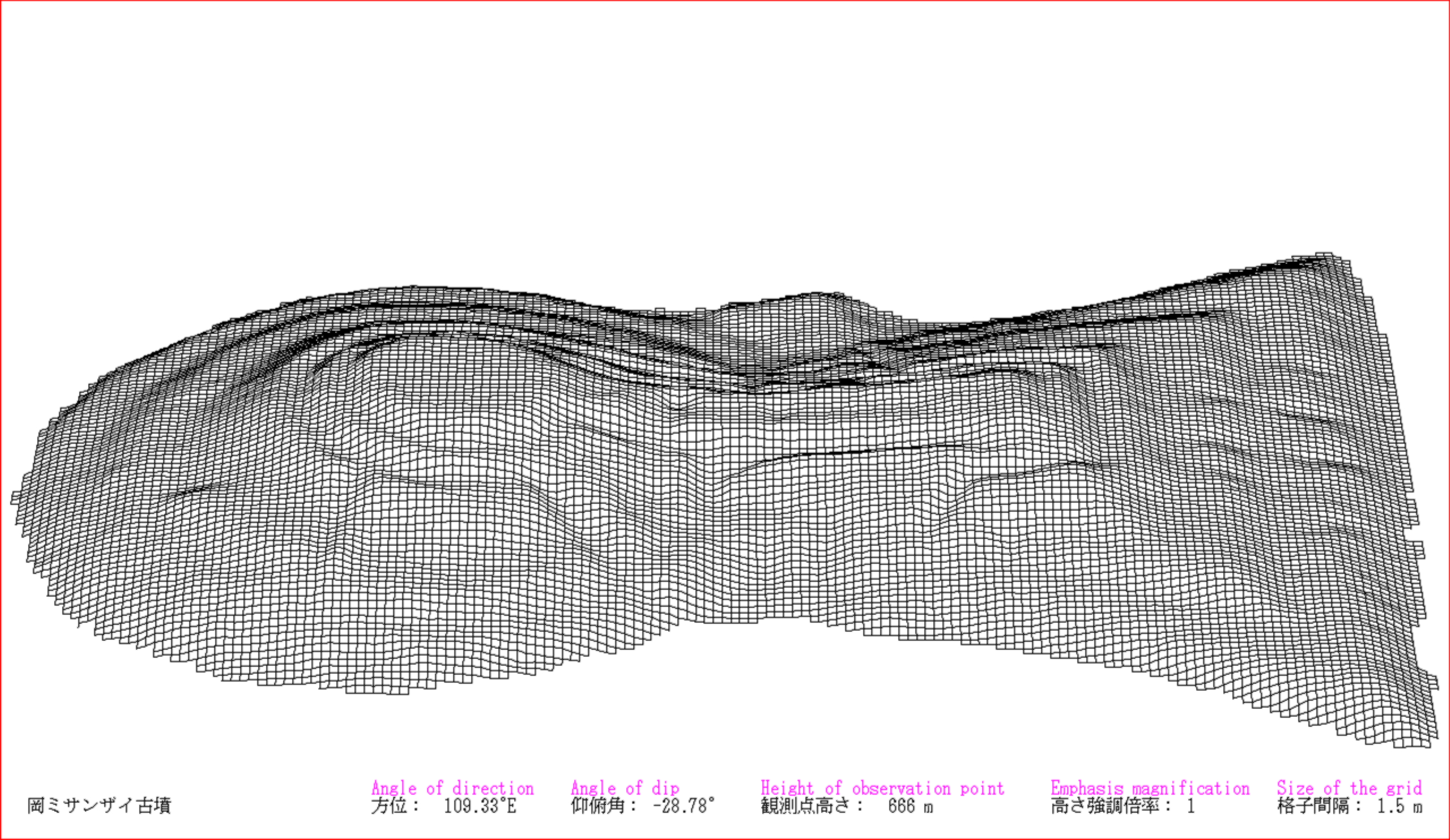 I who am a contributor drew the picture by a software which developed by myself. The survey map which I referred to depends on "「仲哀天皇陵古墳」『古市古墳群測量図集成』古市古墳群世界文化遺産登録推進連絡会議（羽曳野市・藤井寺市） (2015年）". This is a drawing of present situation (not a drawing of a restored mound). The drawing depends on wire frame. Perspective projection.